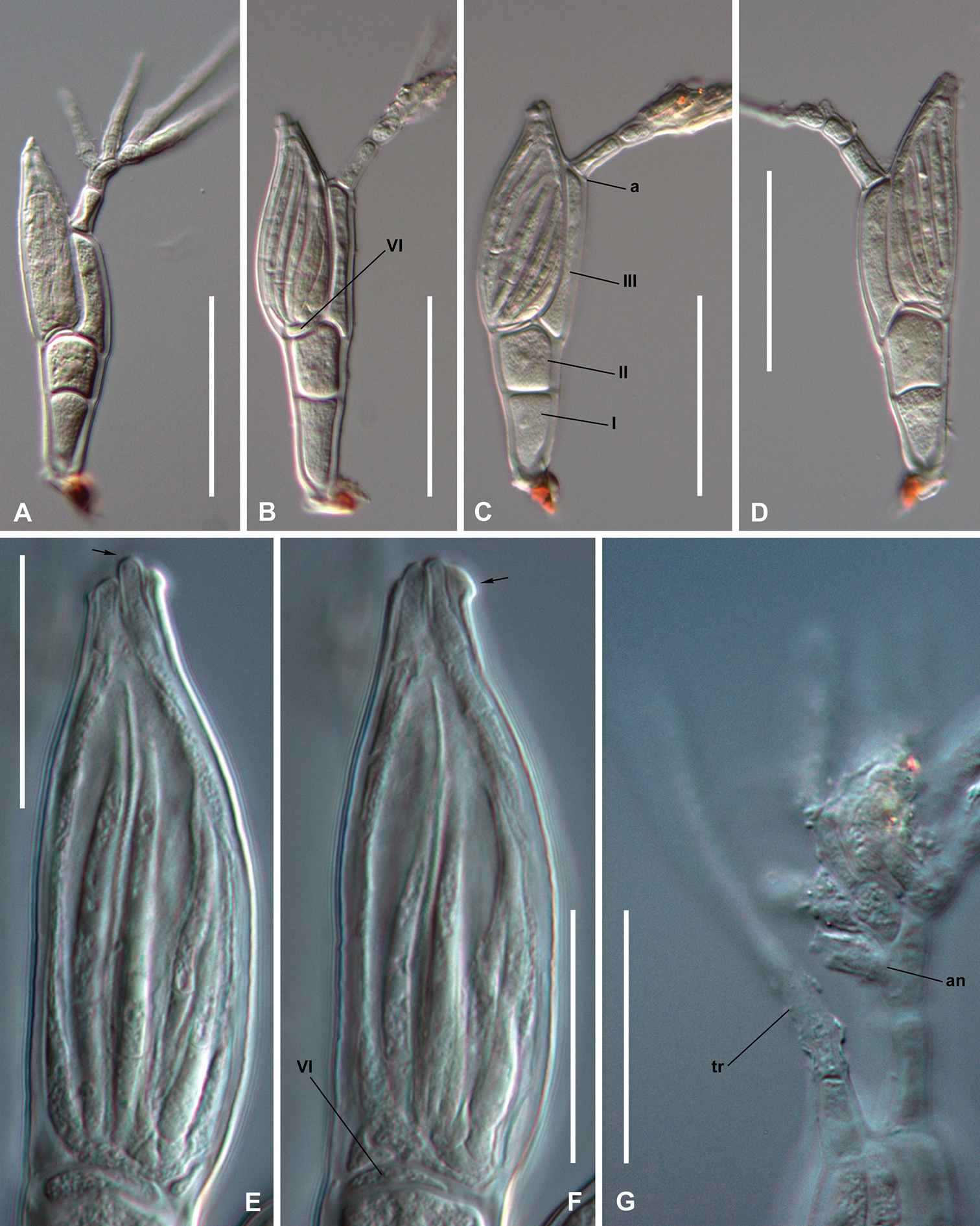 Troglomyces twitteri Santam., Enghoff & Reboleira. A–D mature thalli with labelling of cells and other elements in B, C E, F detail of perithecium at two focusing levels to show the slightly longer lip (E, arrow), and tooth-like outgrowth (F, arrow). In Fig. F, cell VI is labelled G detail of an immature thallus showing the trichogyne (tr) and the antheridium (an). Scale bars: 50 µm (A–D), 25 µm (E–G). Photographs from: slides GA003-1 (A, D), GA003-2 (E–G), and C-F-95157 (B, C).